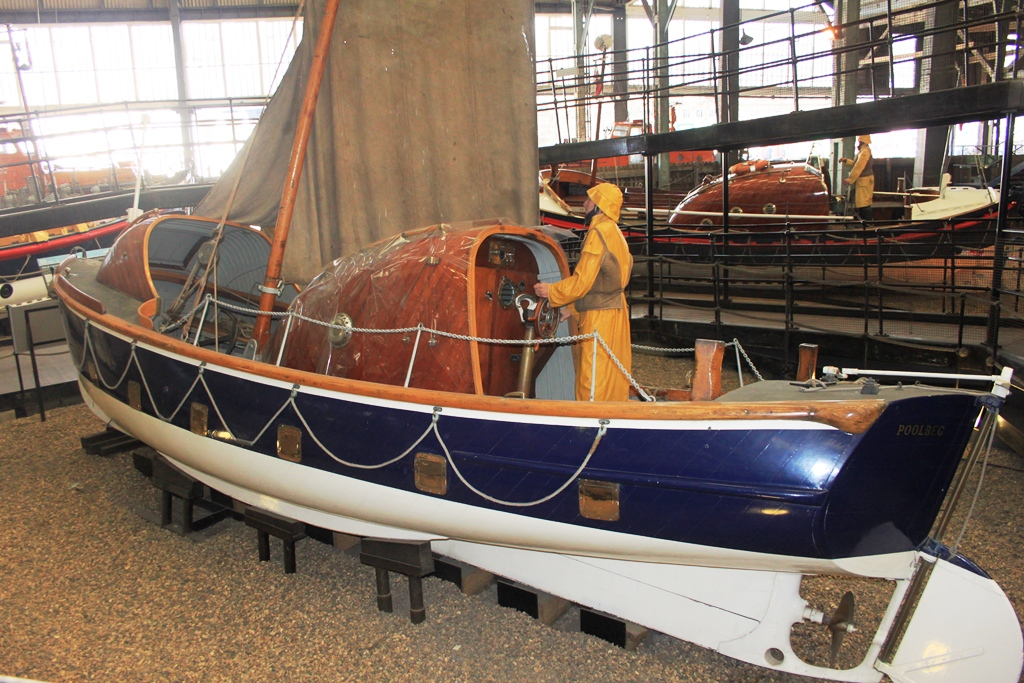 Helen Blake, the only Harbour Class lifeboat to be built, on display at Chatham. It saw service at Poolbeg from 1938 until 1959.